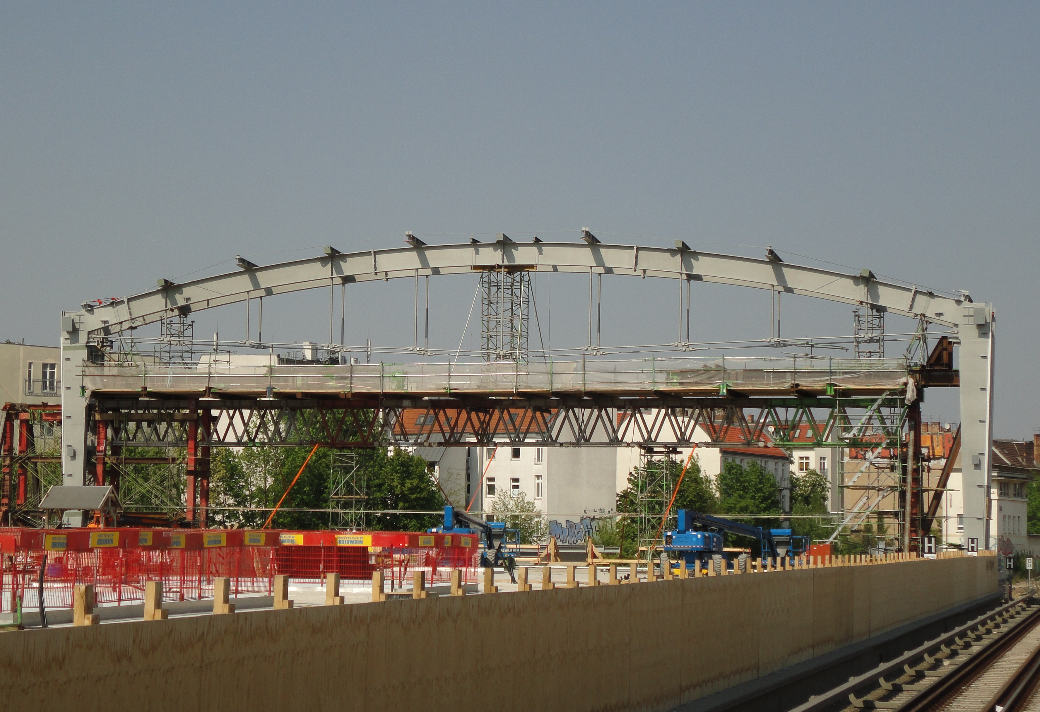 A photo of the station concourse under construction at the S-Bahn tracks of the circle line of the railway station Berlin Ostkreuz.